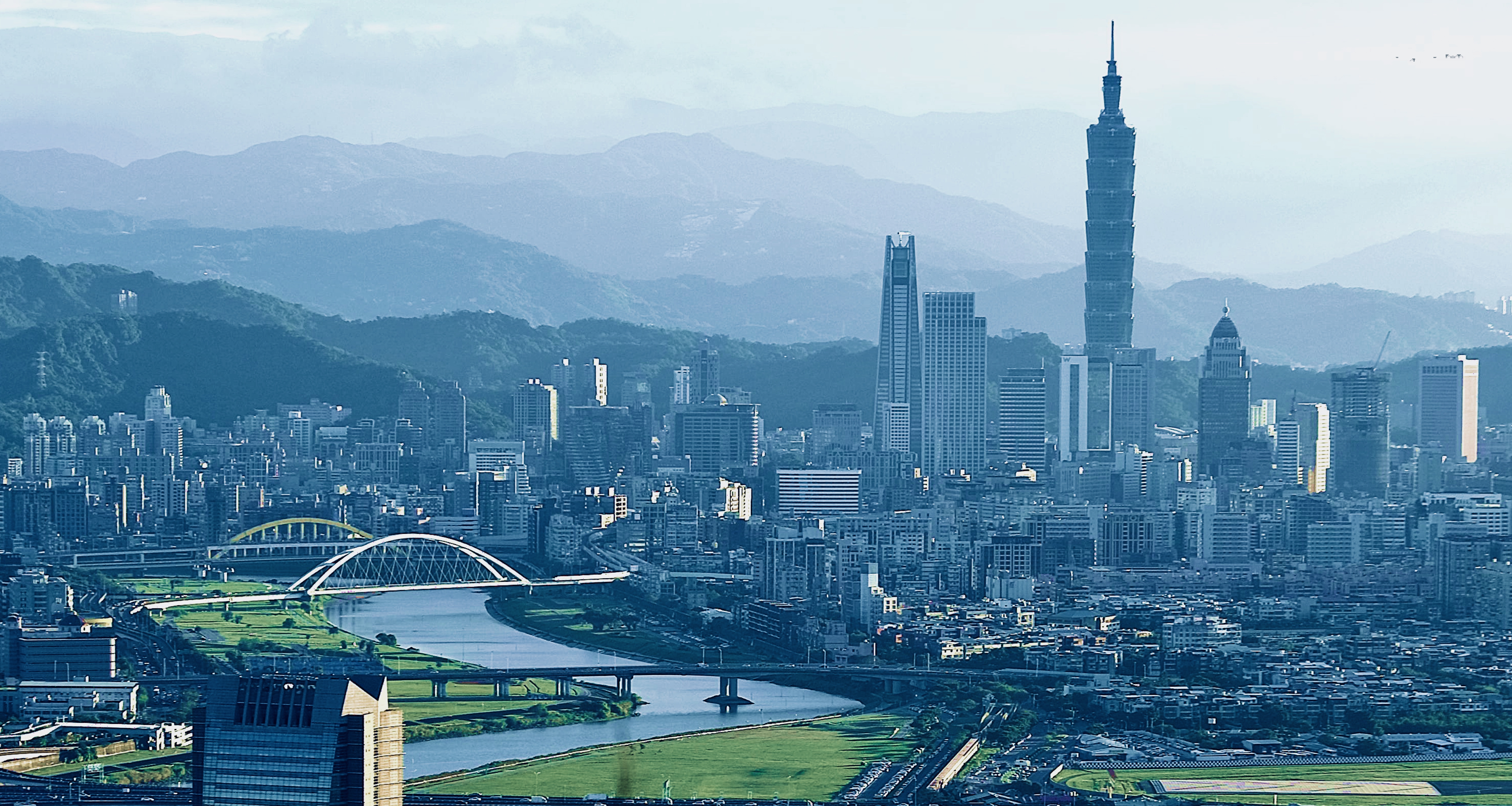 Taipei, Taiwan Skyline panorama